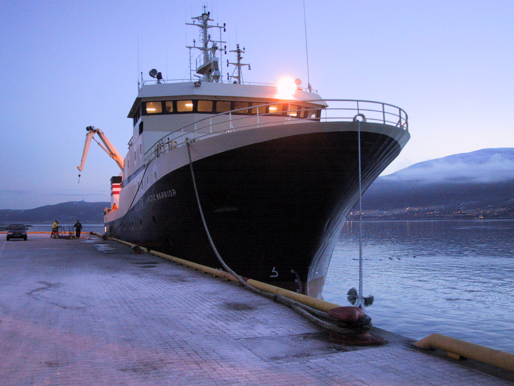 The ARCTIC WARRIOR, a trawler working out of Hull, England. IMO Number: 8709834 MMSI Number: 232555000 Callsign: MYQX2 Length: 55 m Beam: 13 m